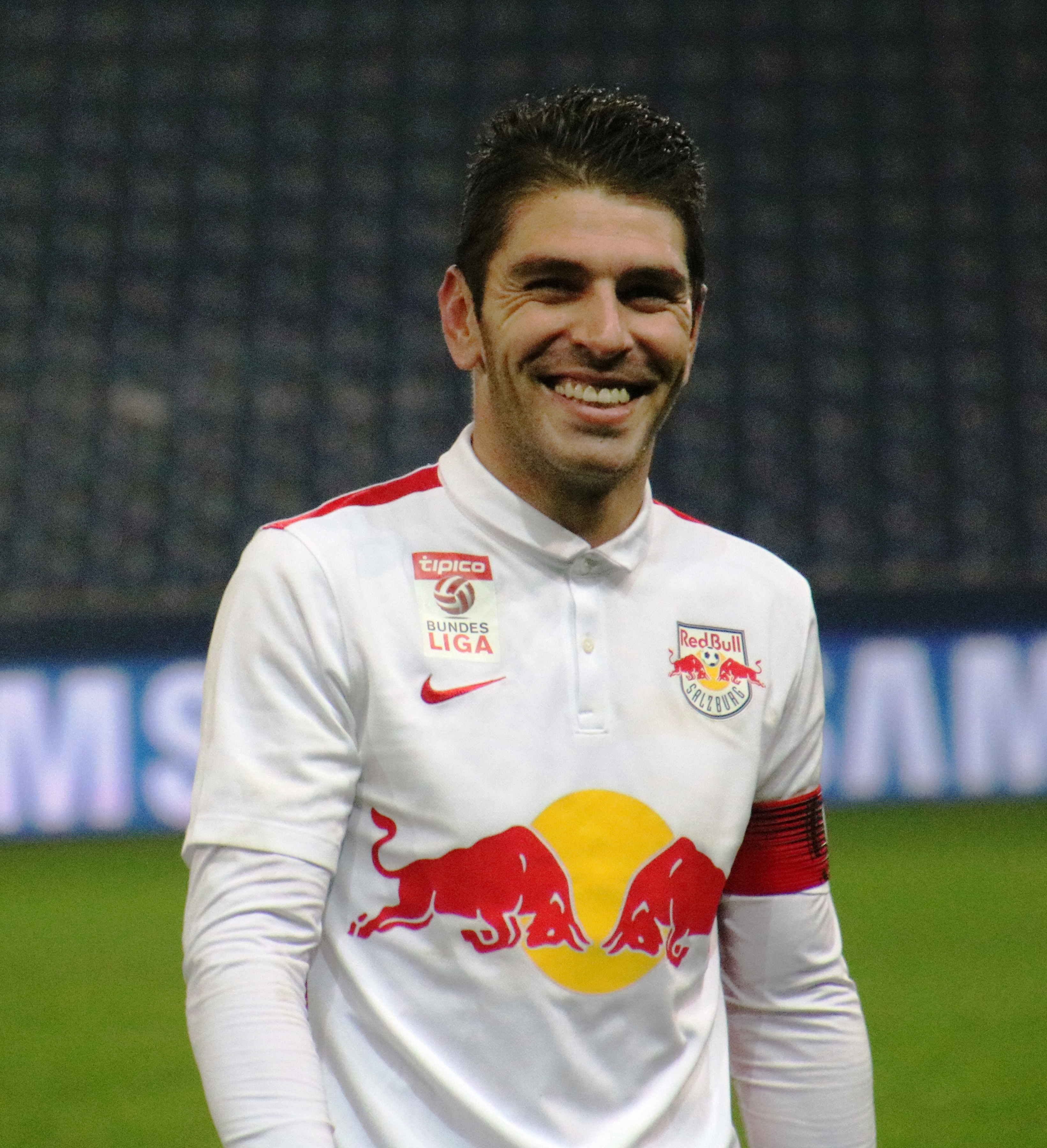 Austrian Cup 3rd round